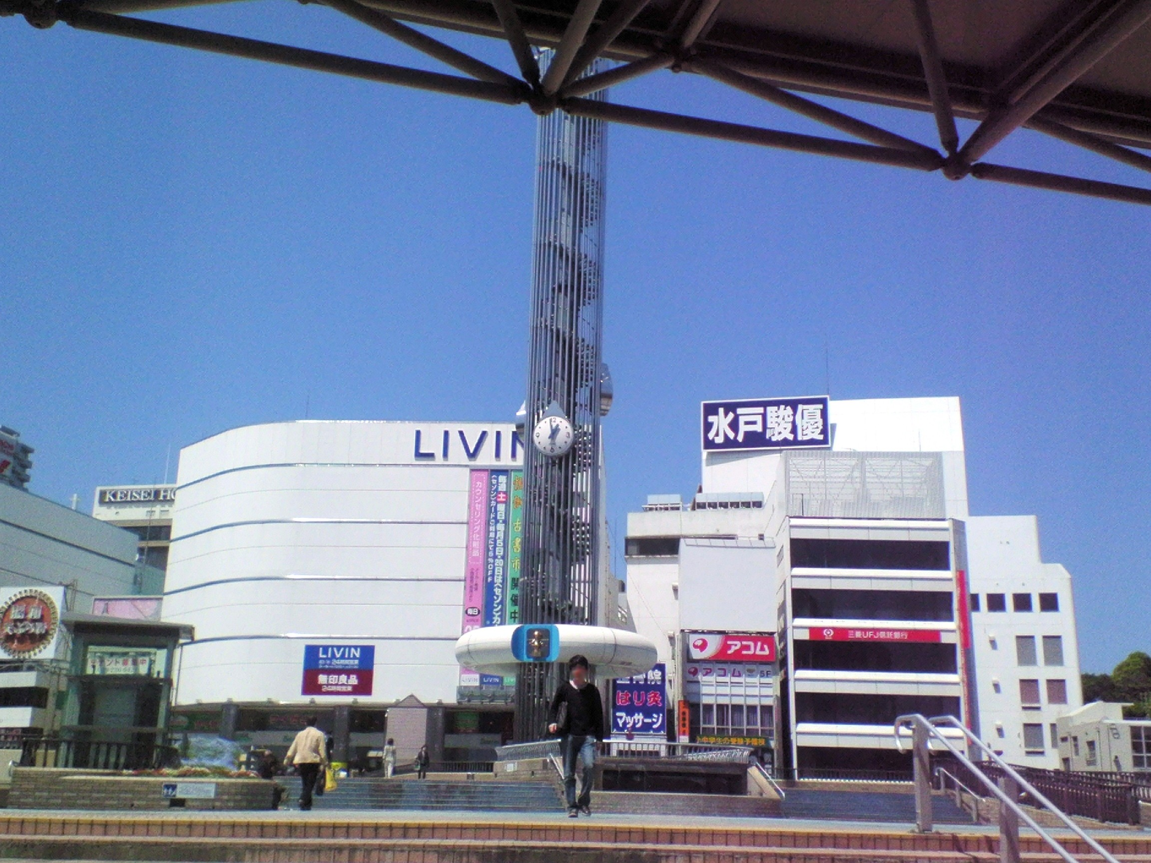 the place near Mito Station